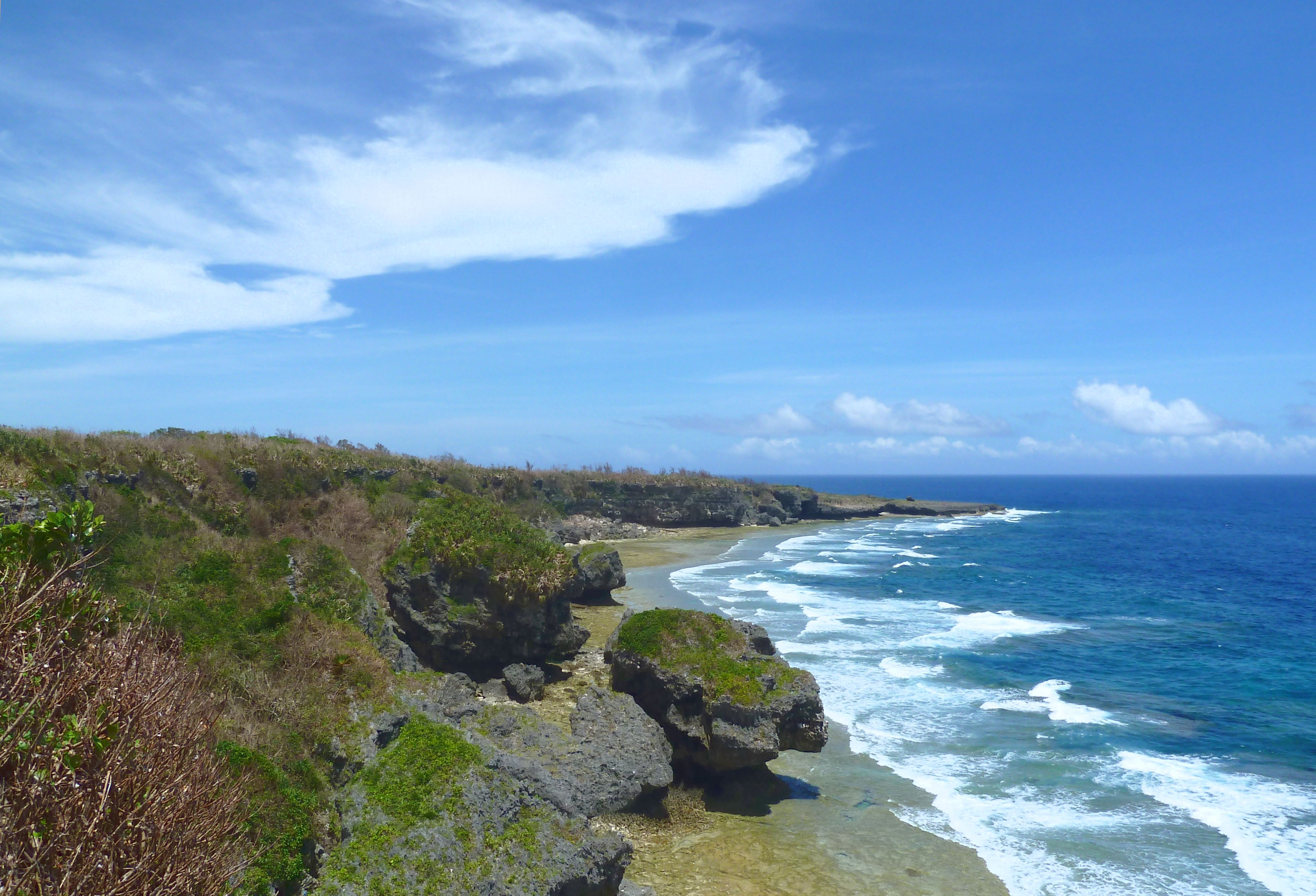 Cape Arasaki seen from Cape Kyan